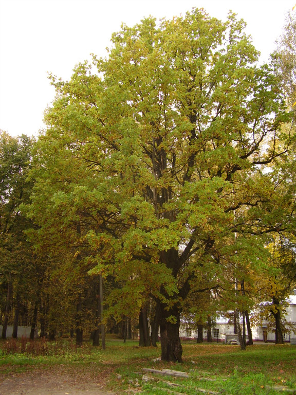 On building of psychiatric hospital, the architect Alexander Krueger. Corner of the park